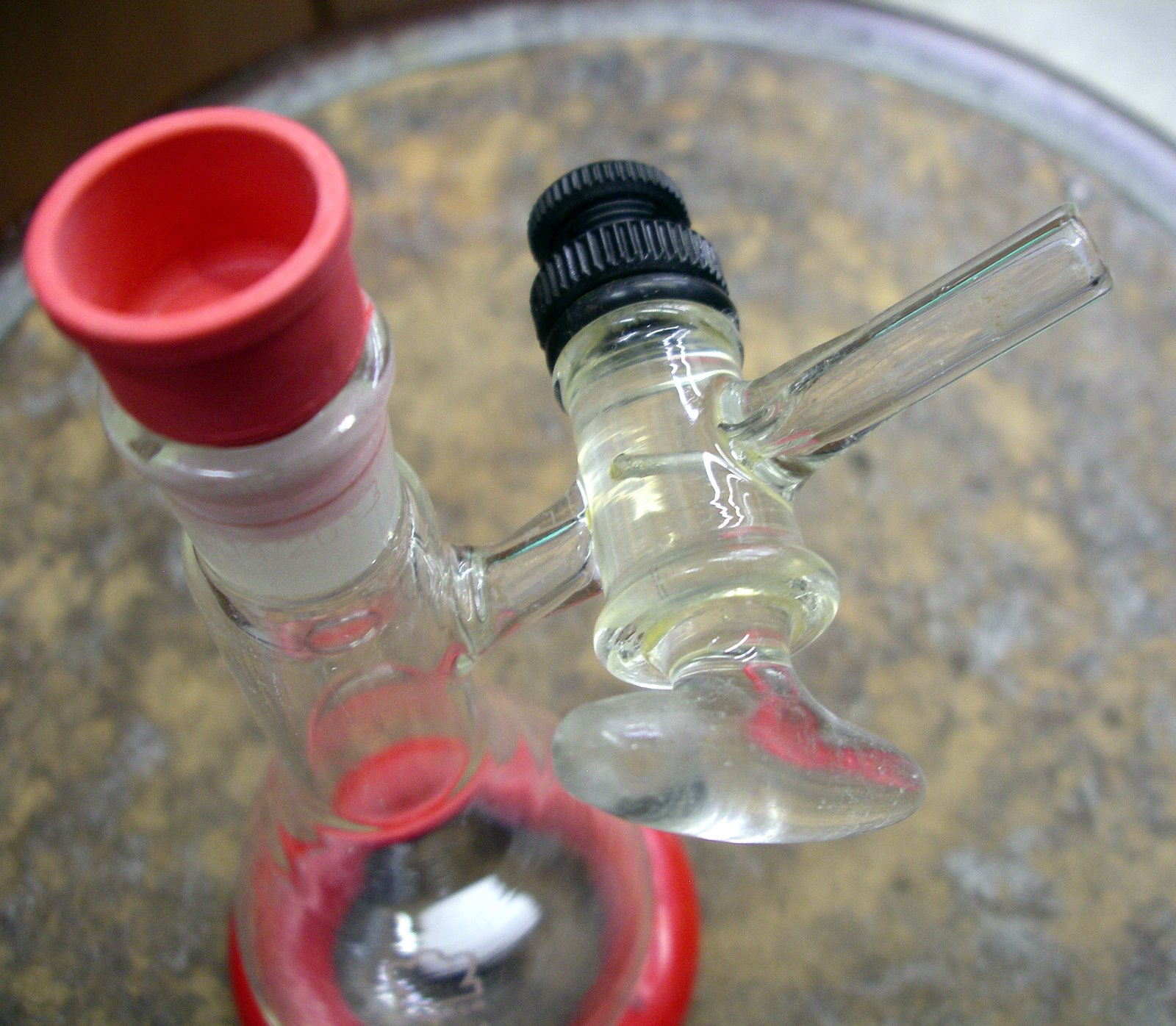 A straight bore stock cock in a schlenk flask sidearm.